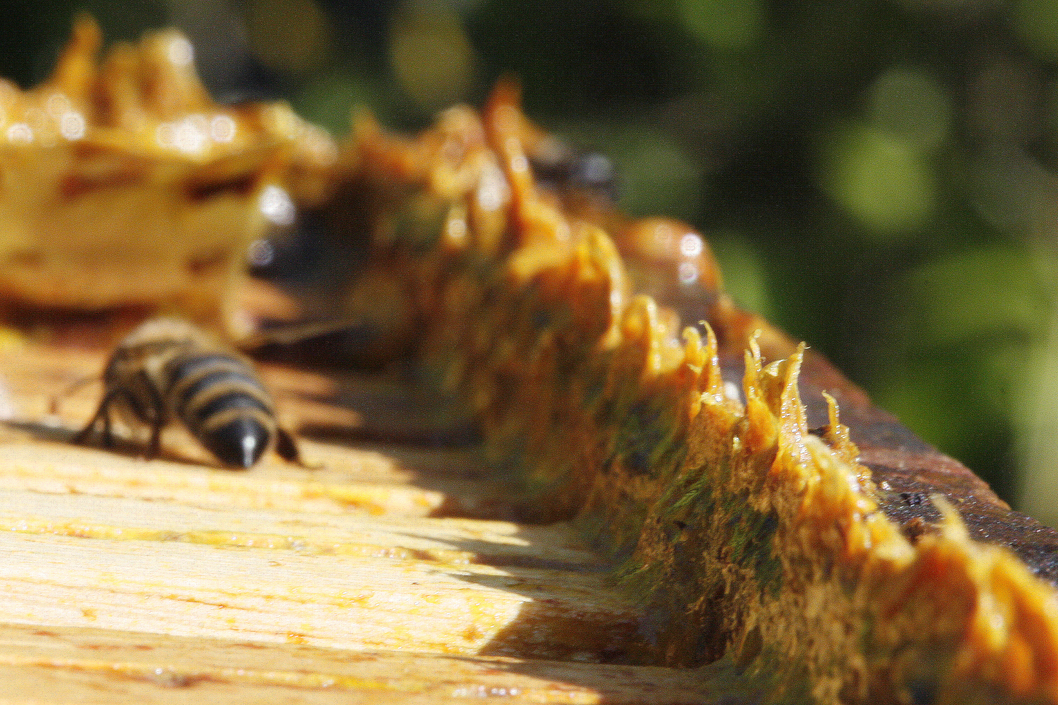 Propolis in beehives